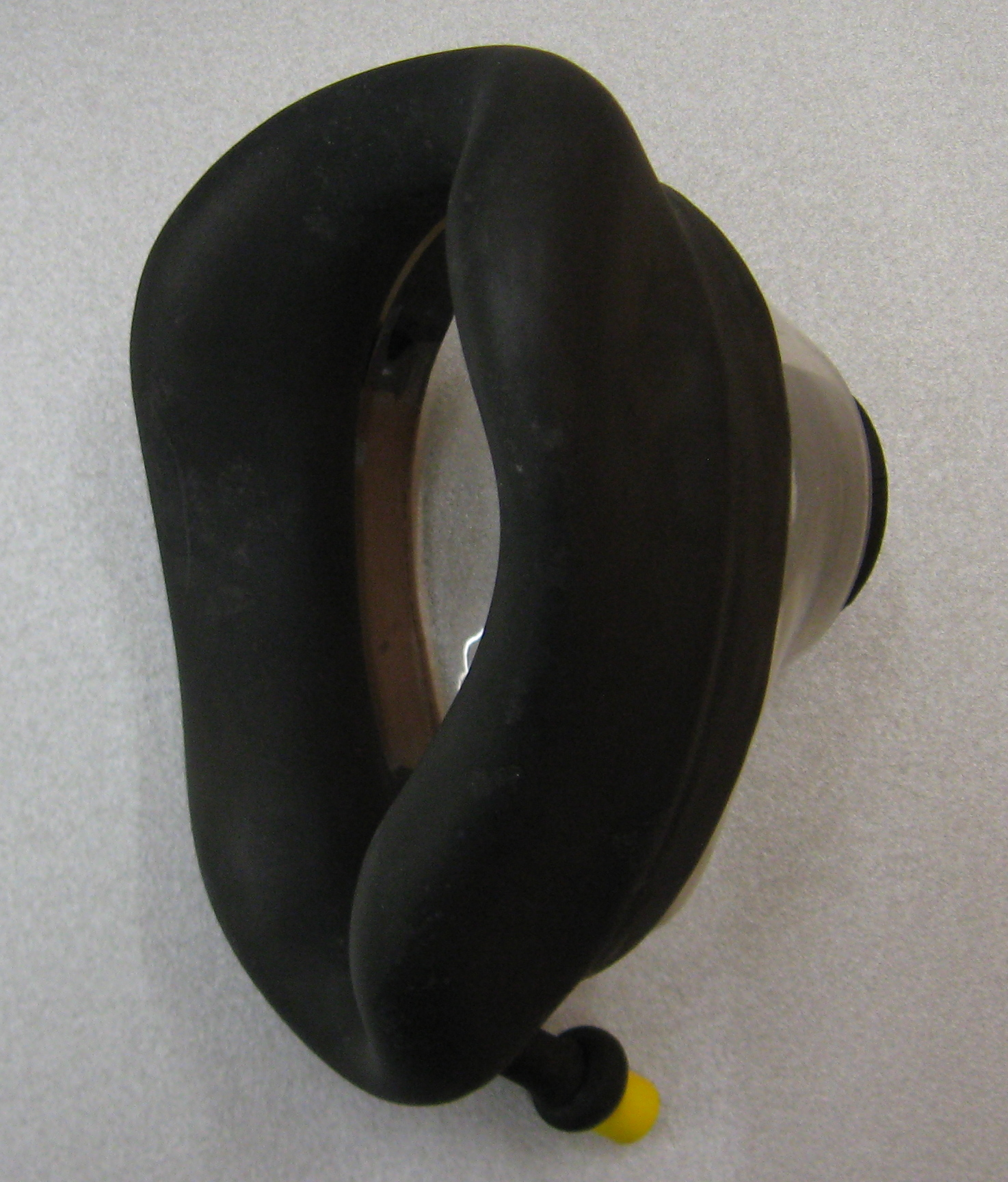 Silicone-rubber masks